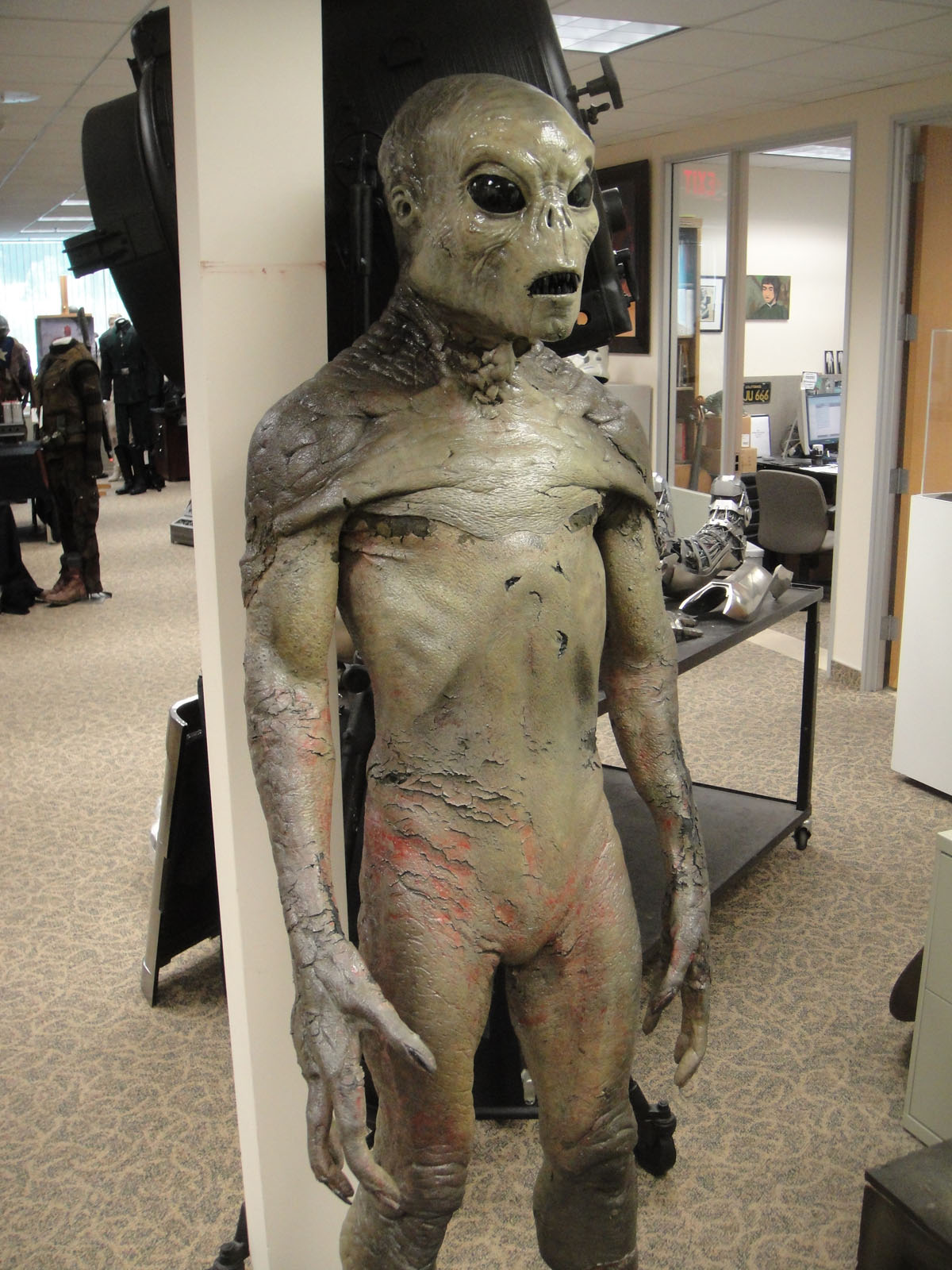 A newborn alien model from The X-Files.